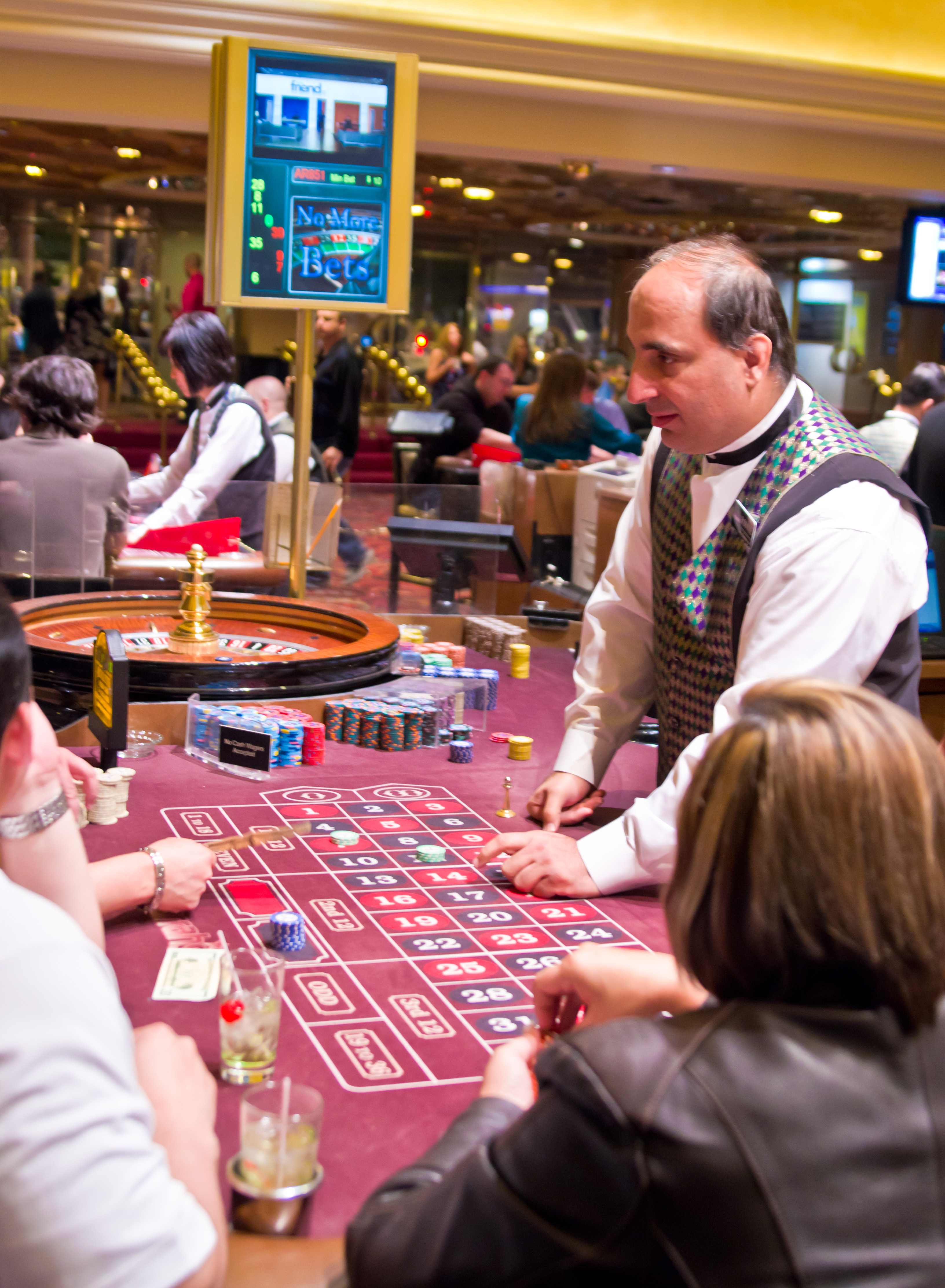 Rulette table in Las Vegas